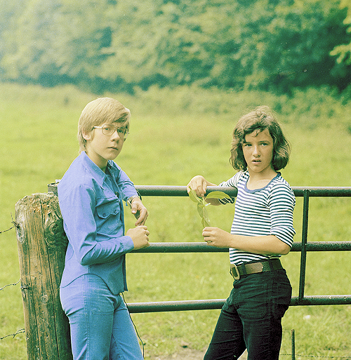 Erik van 't Wout & Martin Perels in Q & Q